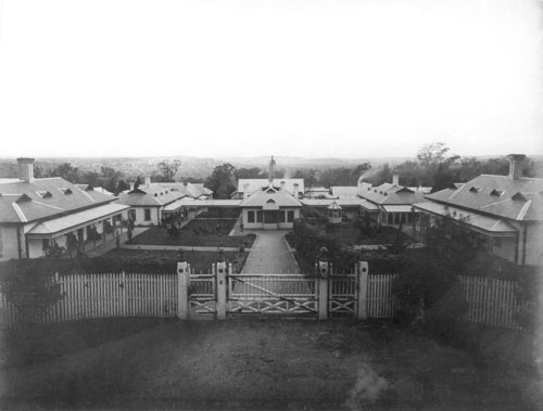 Kew Idiot Asylum. Courtesy of the Kew Cottages Historical Society